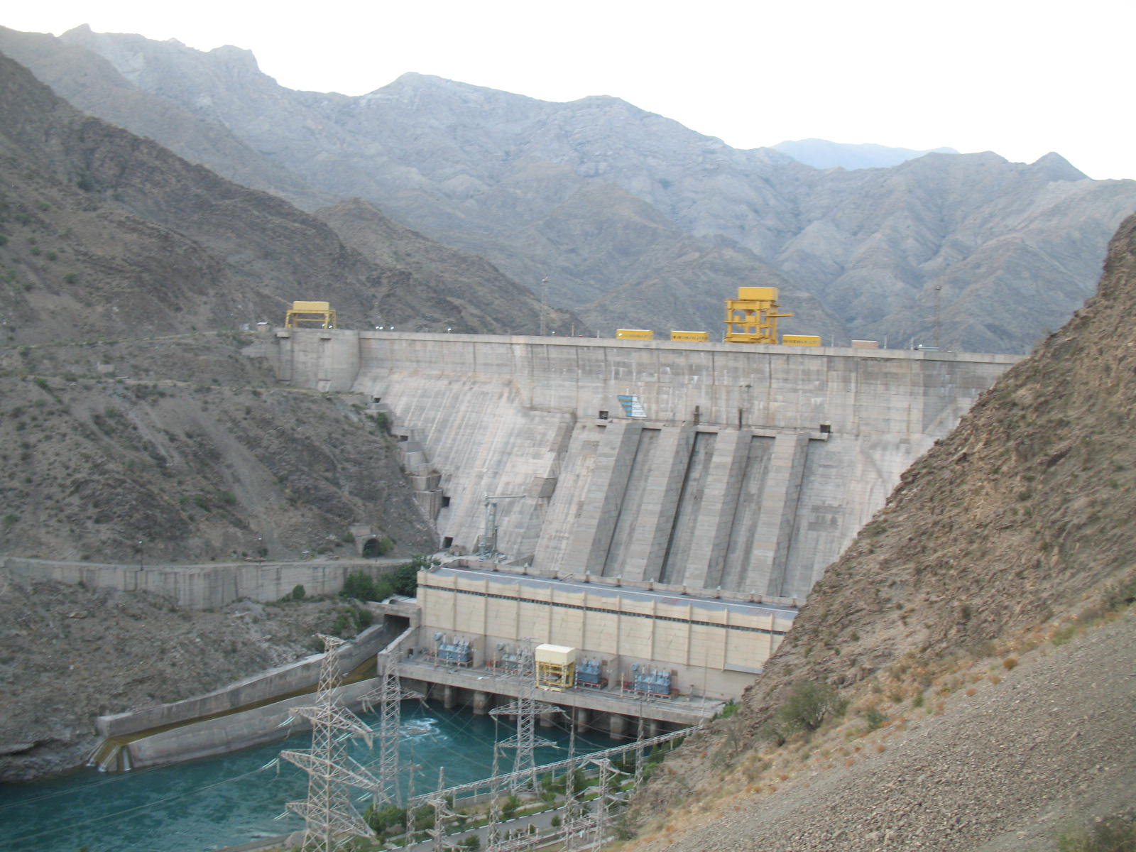 The damn / hydroelectric station at the south end of Toqtogul Reservoir Кыргызча: Токтогул суу сактагычынын аягындагы ГЭС.